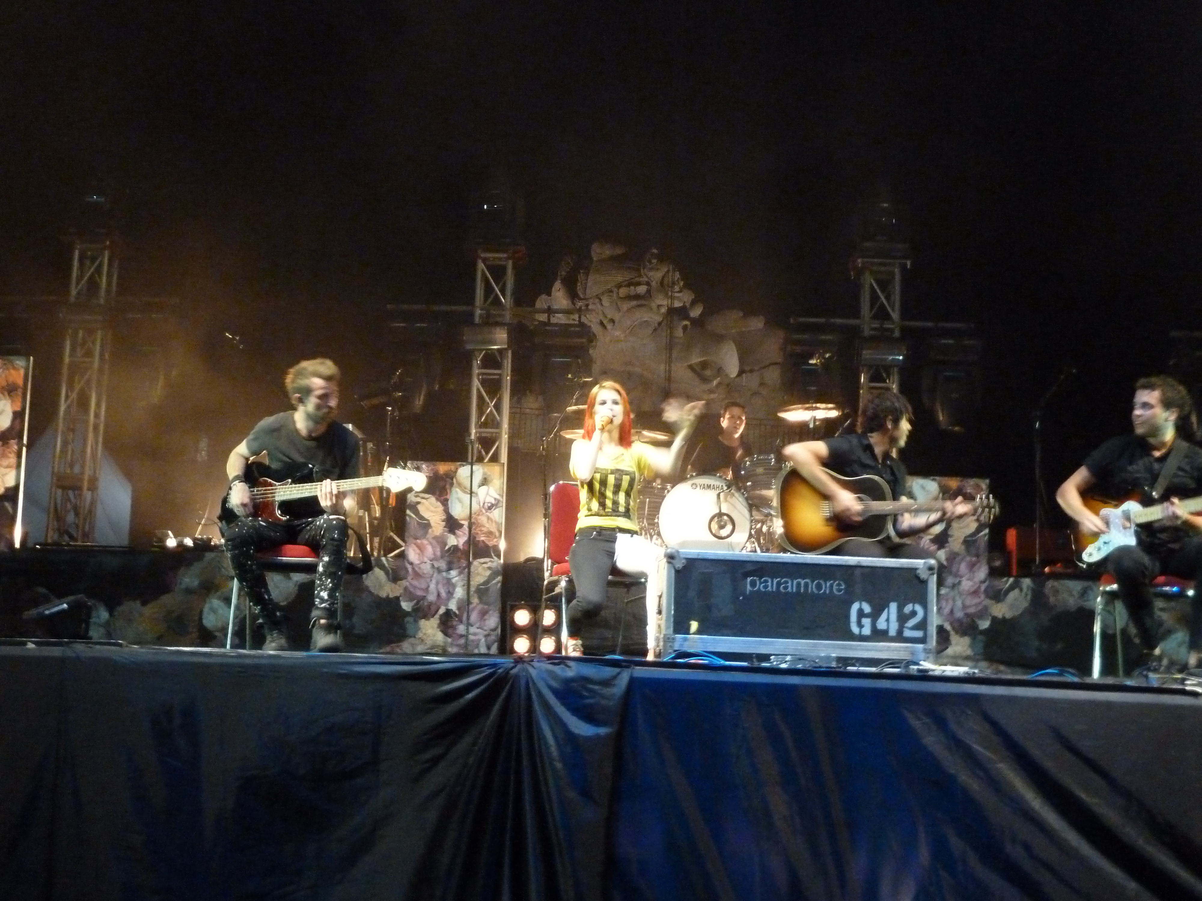 Paramore live in Bali August 2011